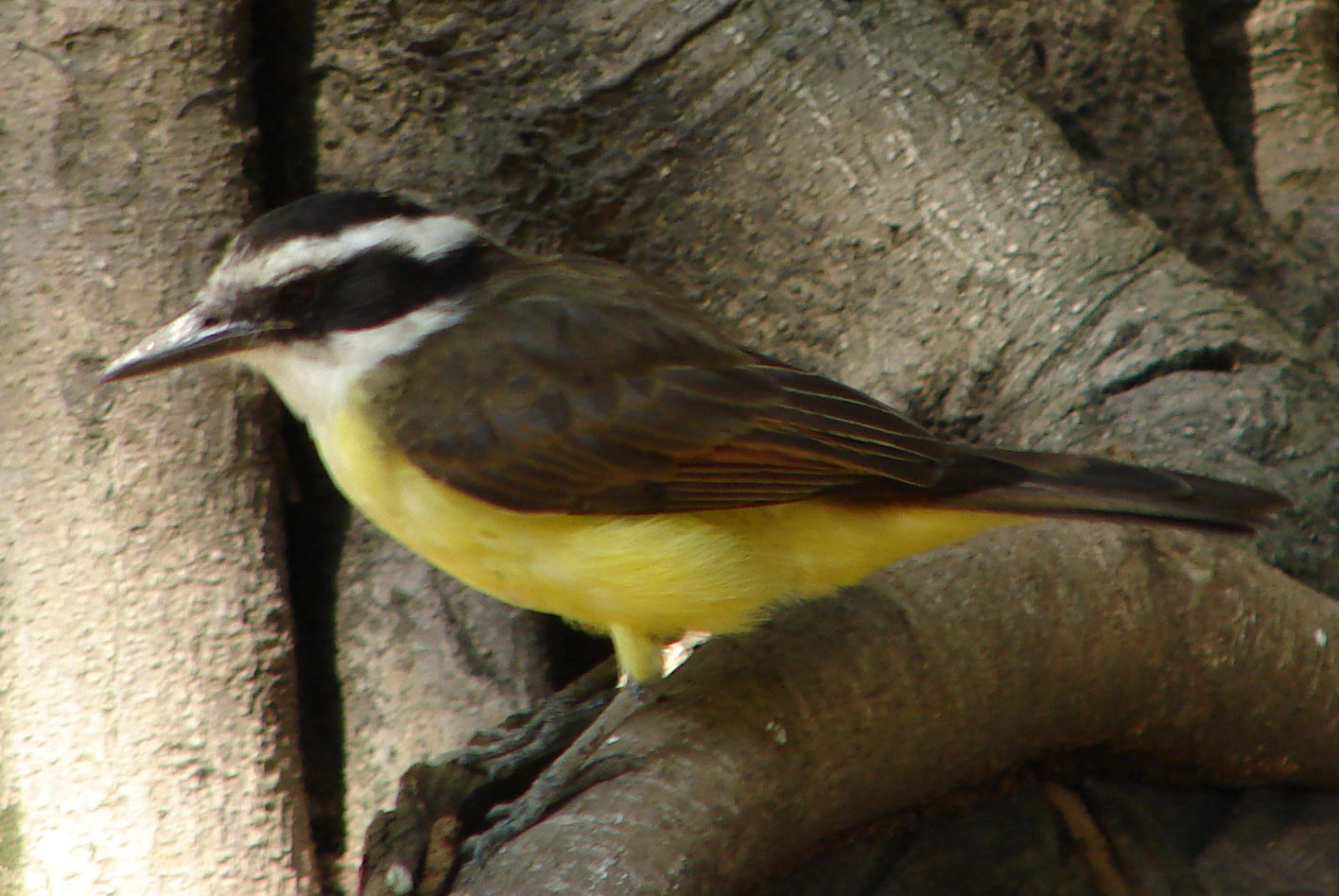 Pitangus sulphuratus.(en) Great Kiskadee.Picture taken at Passeio Publico Park, Rio de Janeiro city